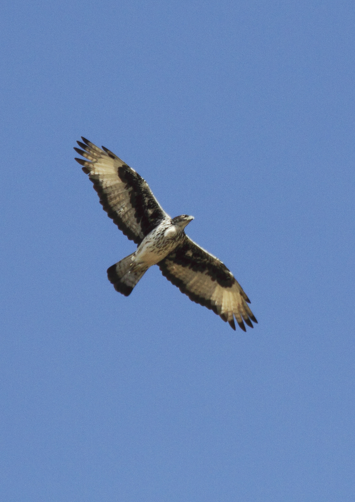 A adult African Hawk-Eagle flying in Kenya.